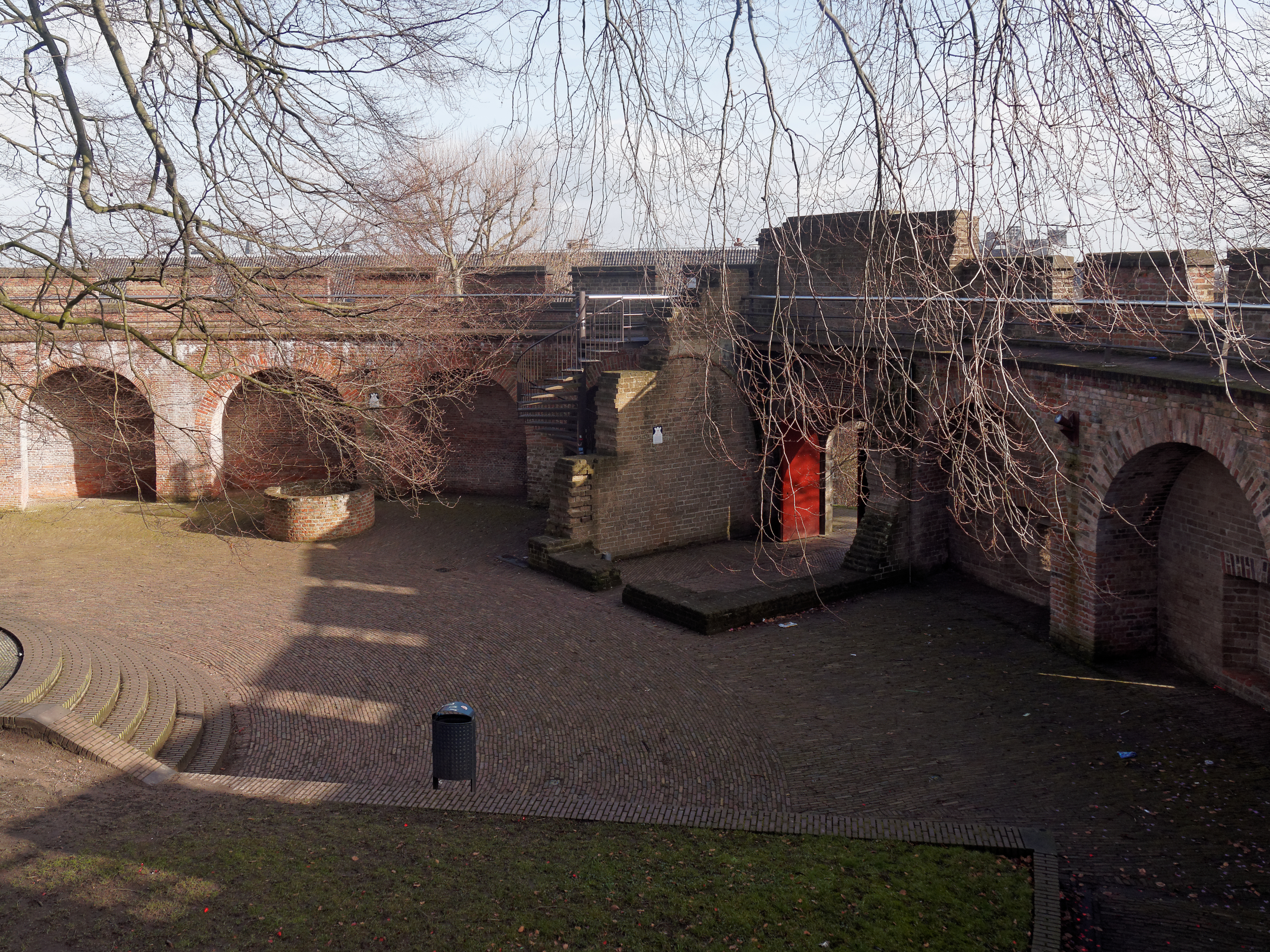 The interior of the Leiden Fortress.